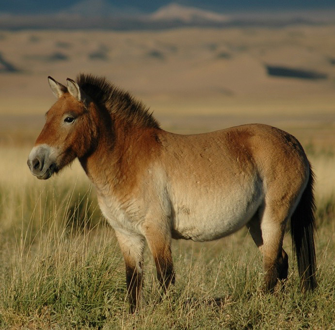 Photo of reintroduced Przewalski's horse taken at the "Seer" release site, managed by the Association pour le cheval de Przewalski:TAKH, in the Khar Us Nuur National Park Buffer Zone